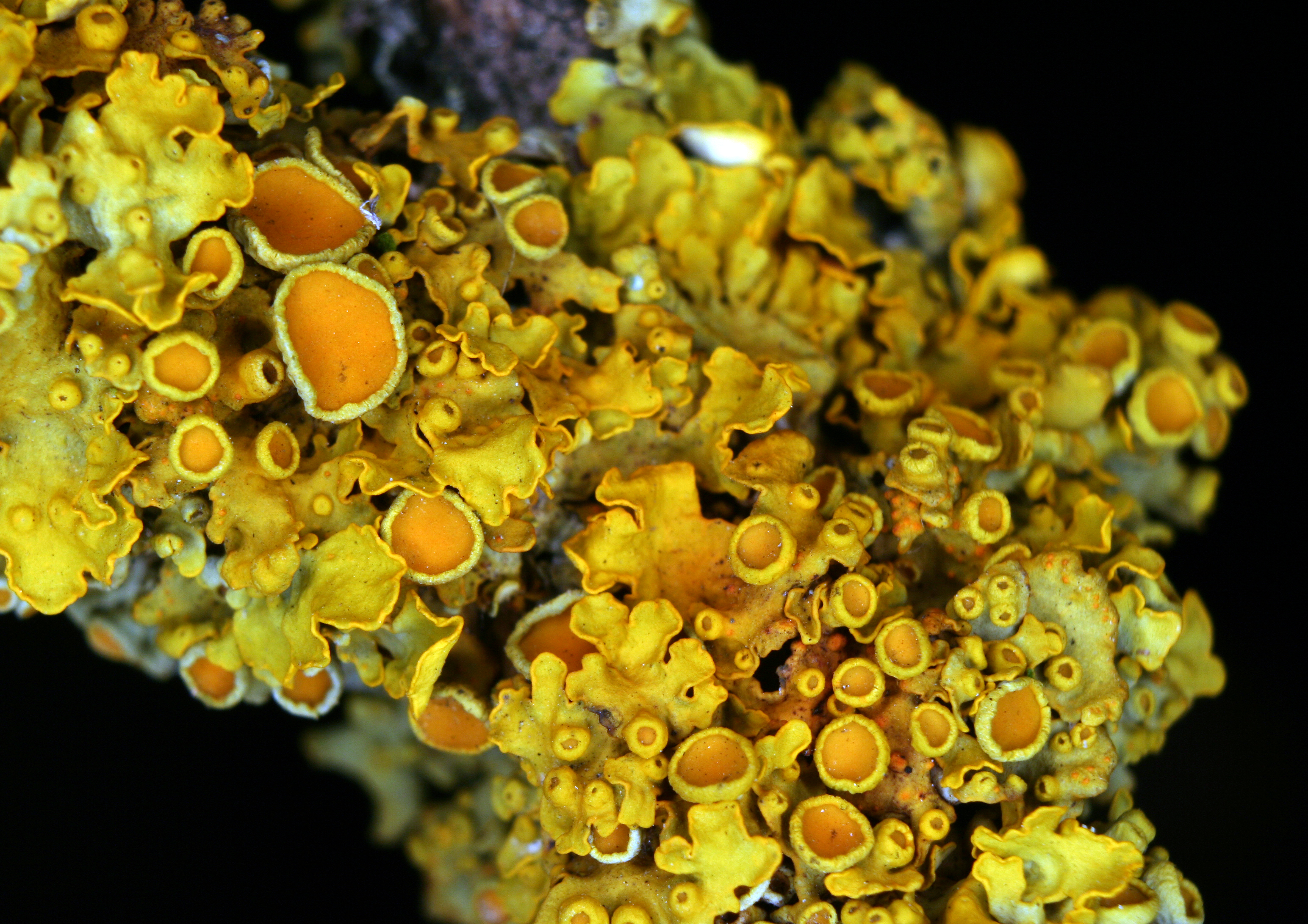 Common orange lichen, Yellow scale lichen or Shore lichen, Xanthoria parietina, Family: Teloschistaceae, Location: Southern Germany, Ulm